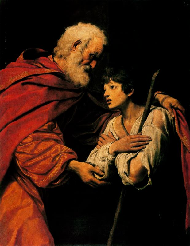 Return of the Prodigal Sonlabel QS:Len,"Return of the Prodigal Son"label QS:Les,"Regreso del hijo pródigo"label QS:Lfr,"Le Retour de l'enfant prodigue"